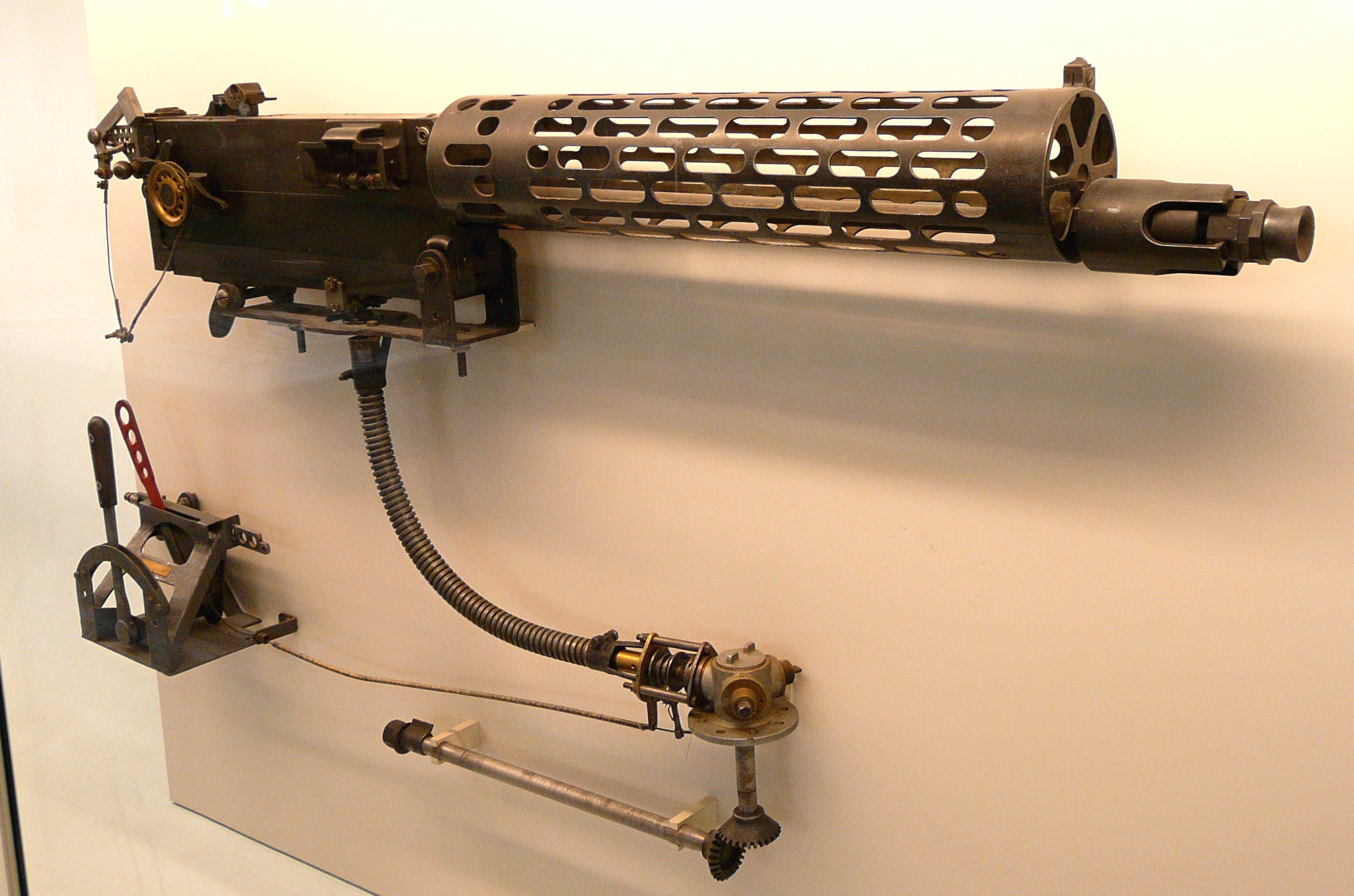 German machine gun MG 08/15 for aircraft (version "L") with interrupter gear; intended for single hand use (Deutsches Museum Munich).